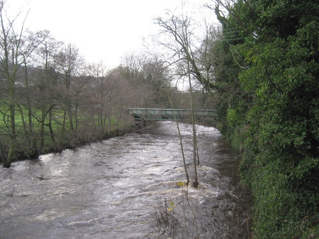 River Nidd at Glasshouses The river in full spate after 24hours of heavy rain